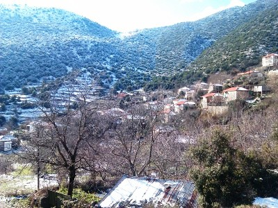 Καμενιάνοι Αχαΐας